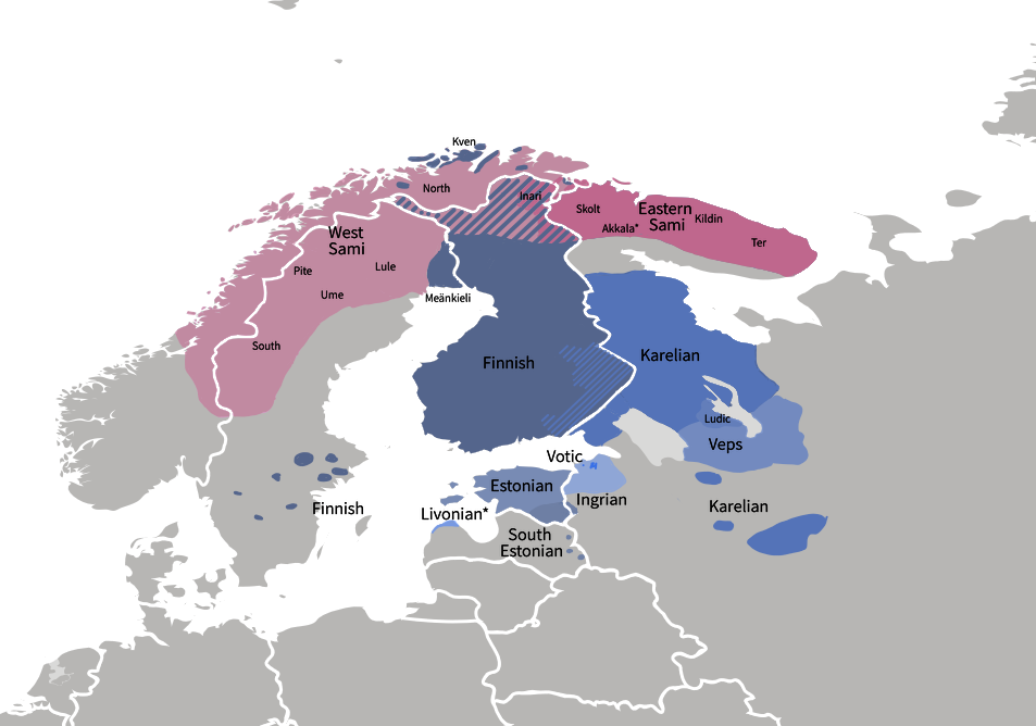 The Finno-Samic languages are a controversial and hypothetical subgroup of the Uralic Languages made up of the Finnic and Samic language group.